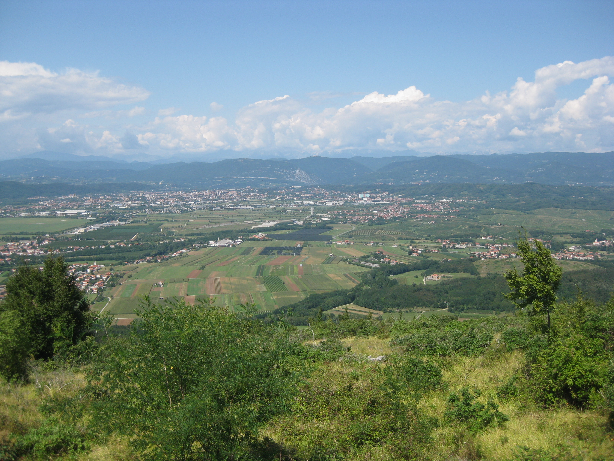 Vipava valley, Gorica, Slovenia